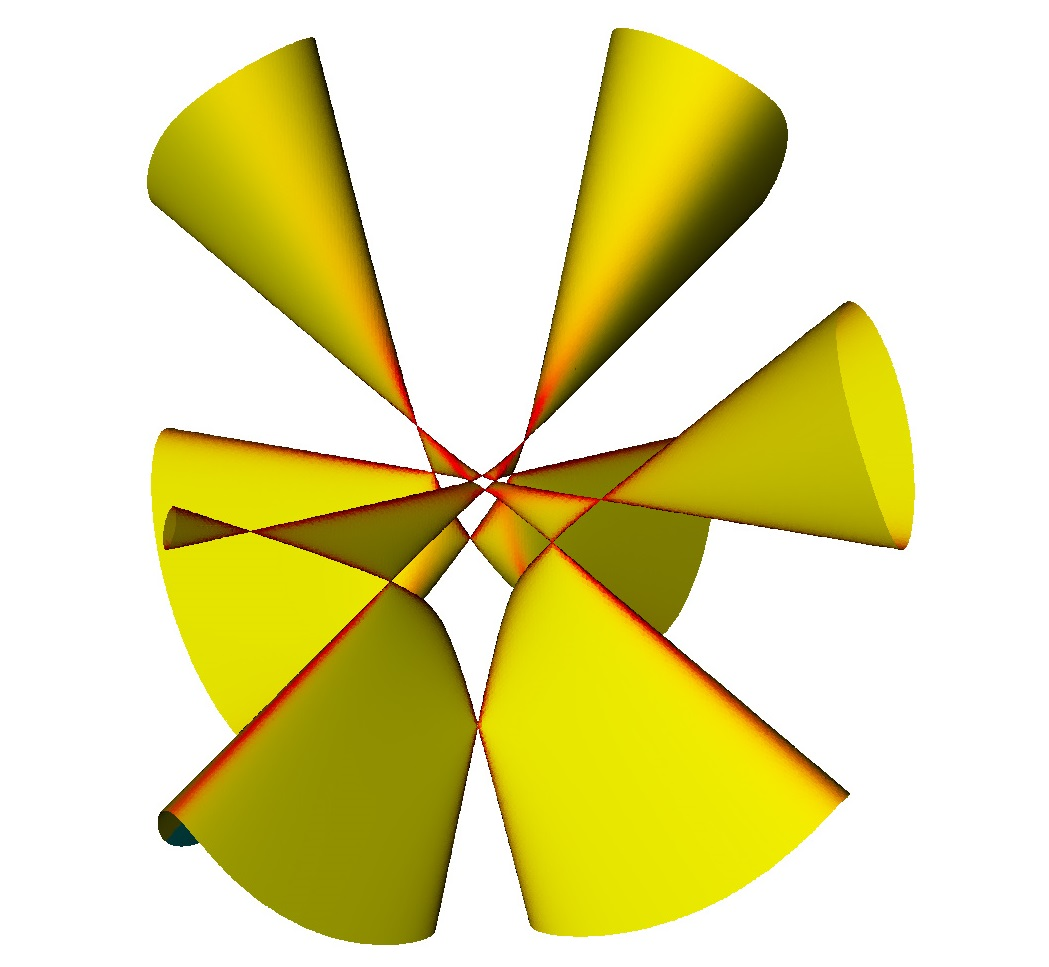 Quartic surface tetrahedroid defined by a b c ( x 4 + y 4 + z 4 + w 4 ) − a ( b + c − a ) ( x 2 w 2 + y 2 z 2 ) − b ( c + a − b ) ( y 2 w 2 + x 2 z 2 ) − c ( a + b − c ) ( z 2 w 2 + x 2 y 2 ) {\displaystyle {\sqrt {a {\sqrt {b {\sqrt {c (x^{4}+y^{4}+z^{4}+w^{4})-{\sqrt {a (b+c-a)(x^{2}w^{2}+y^{2}z^{2})-{\sqrt {b (c+a-b)(y^{2}w^{2}+x^{2}z^{2})-{\sqrt {c (a+b-c)(z^{2}w^{2}+x^{2}y^{2})} where a = 25 , b = 144 , c = 169 {\displaystyle a=25,b=144,c=169} . This surface has 16 nodes, two of which are hidden. The colouring depends on the mean curvature. The surface has been calculated using the SurfSurf program and rendered using JavaView.